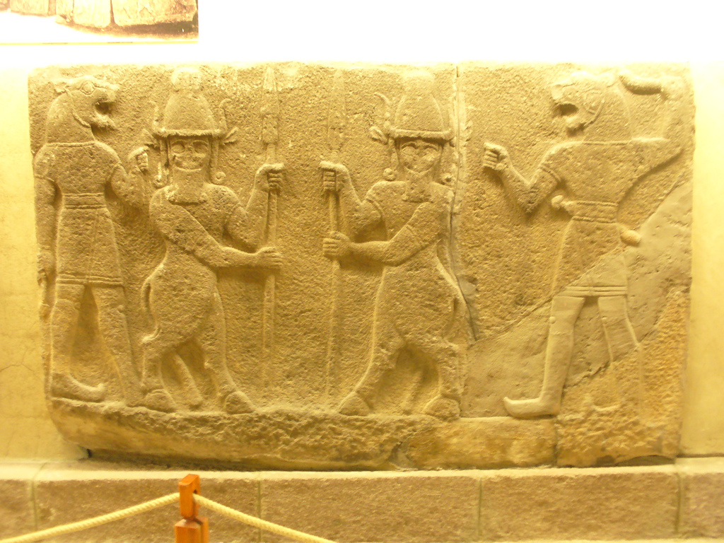 Kusarikku (hybrid bull-men) and ugallu (hybrid lion-men) on a Hittite relief from Carchemish. Museum of Anatolian Civilizations.